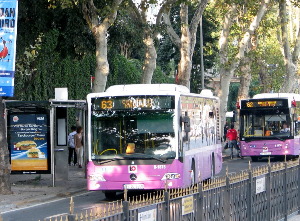 Bus stop in Kabataş, Istanbul